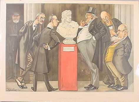 Caricature : "A Committee of Taste. The Lord Protect Us!". Balfour, Chamberlain, Harcourt, Lecky and Courtney examine a bust of Cromwell; double print.